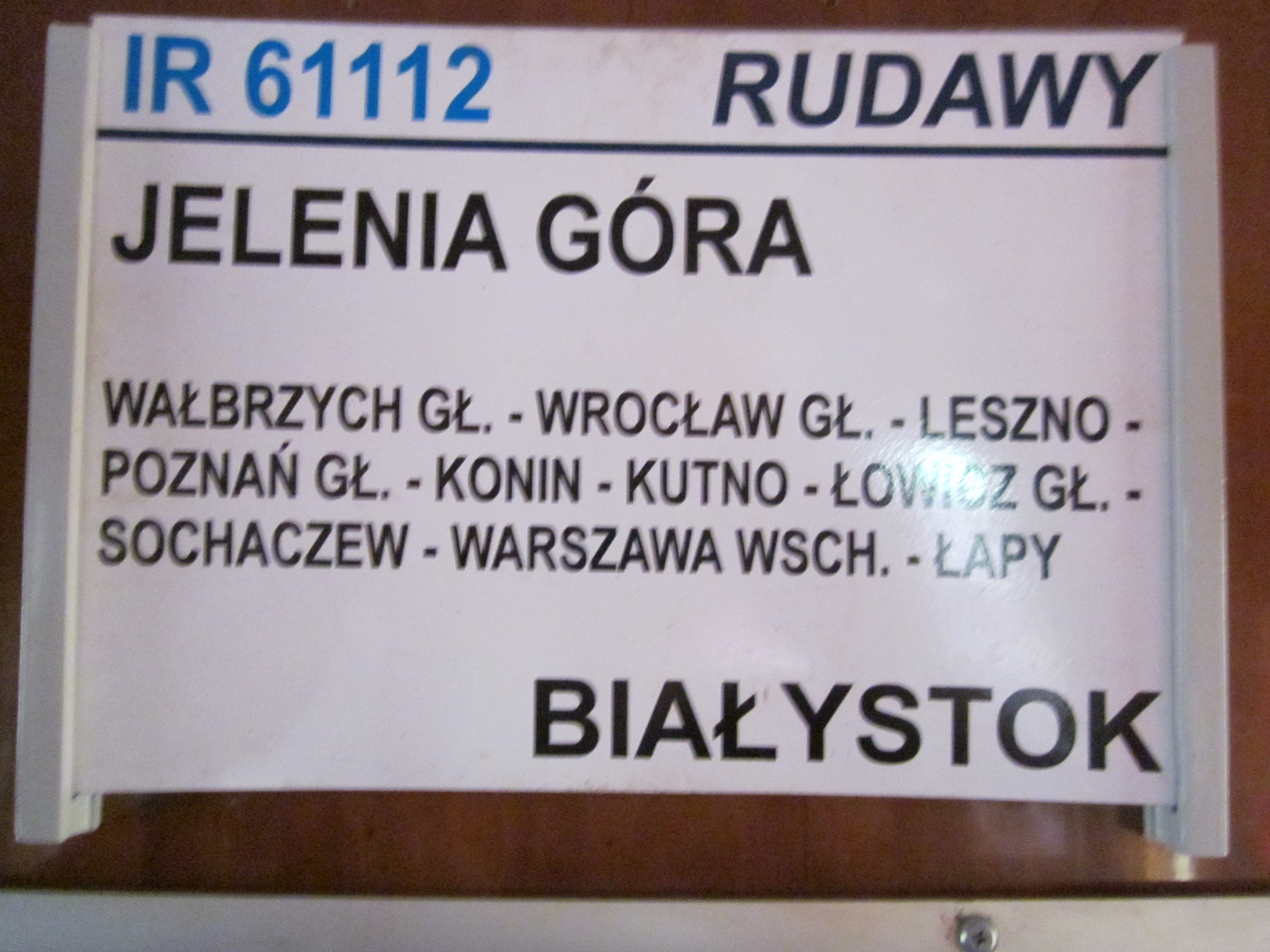 Information board of the trains from Jelenia Góra to Białystok